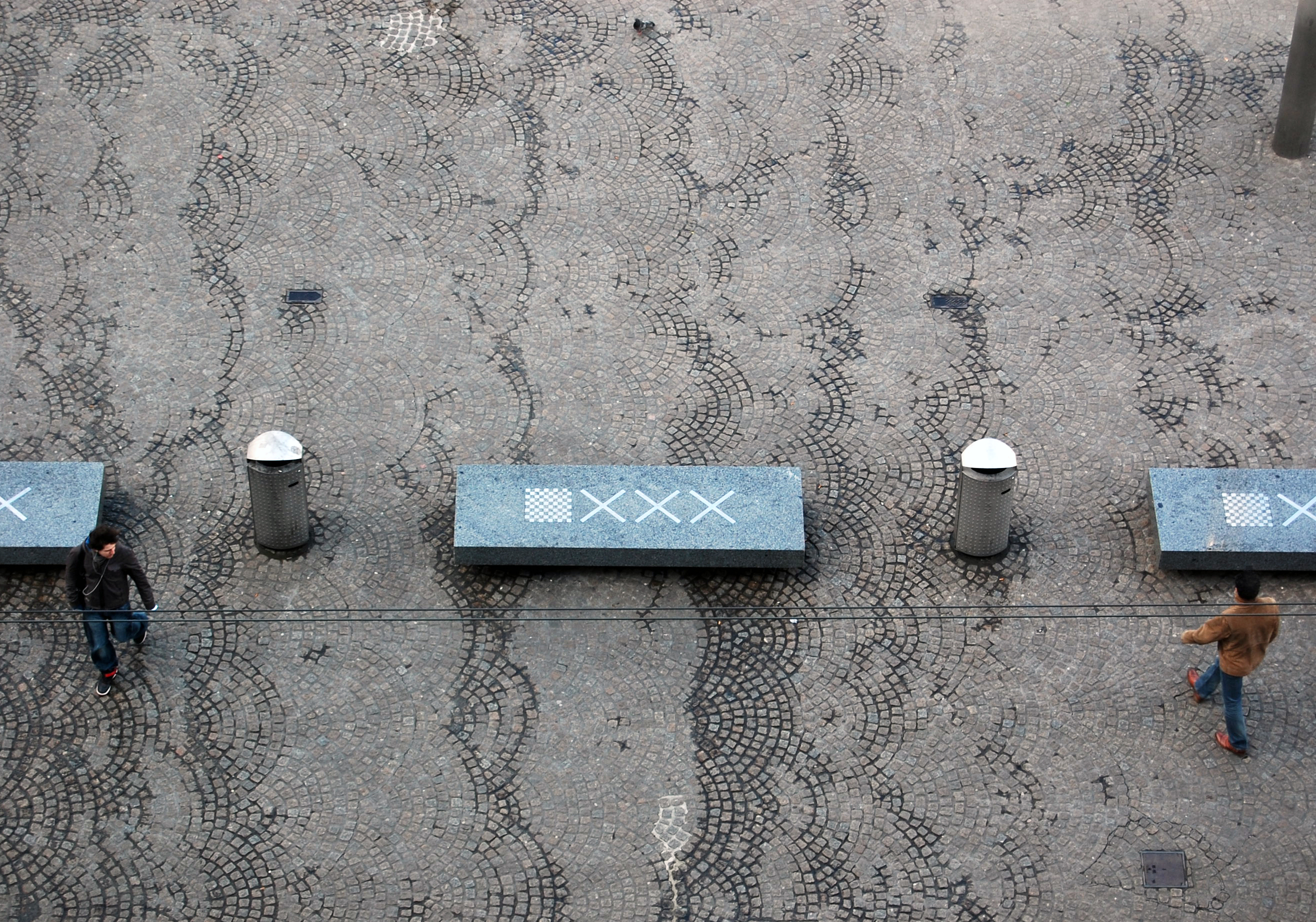 Benches in the city of Amsterdam with the symbol of the city: three x